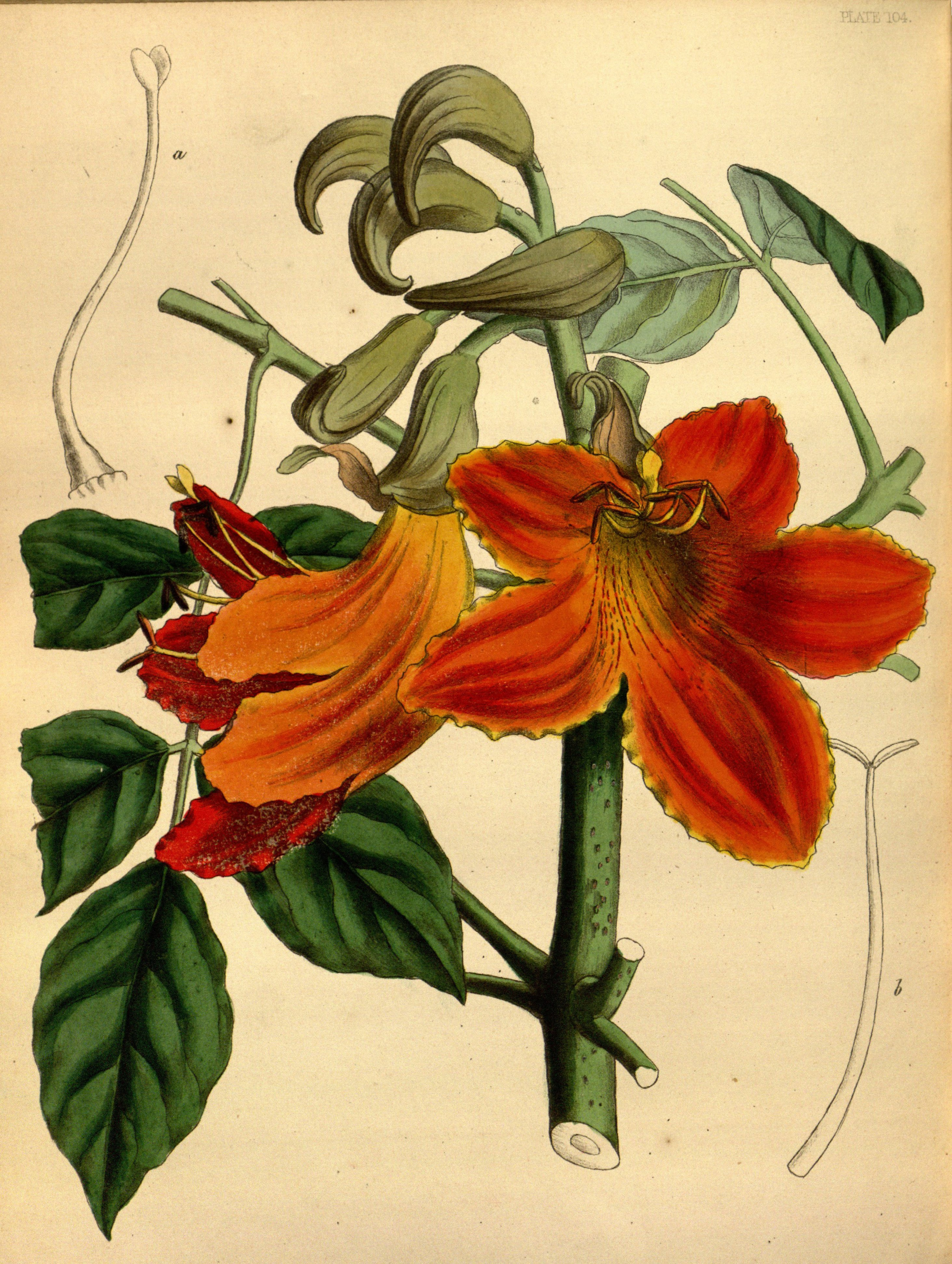 Spathodea campanulata P.Beauv.